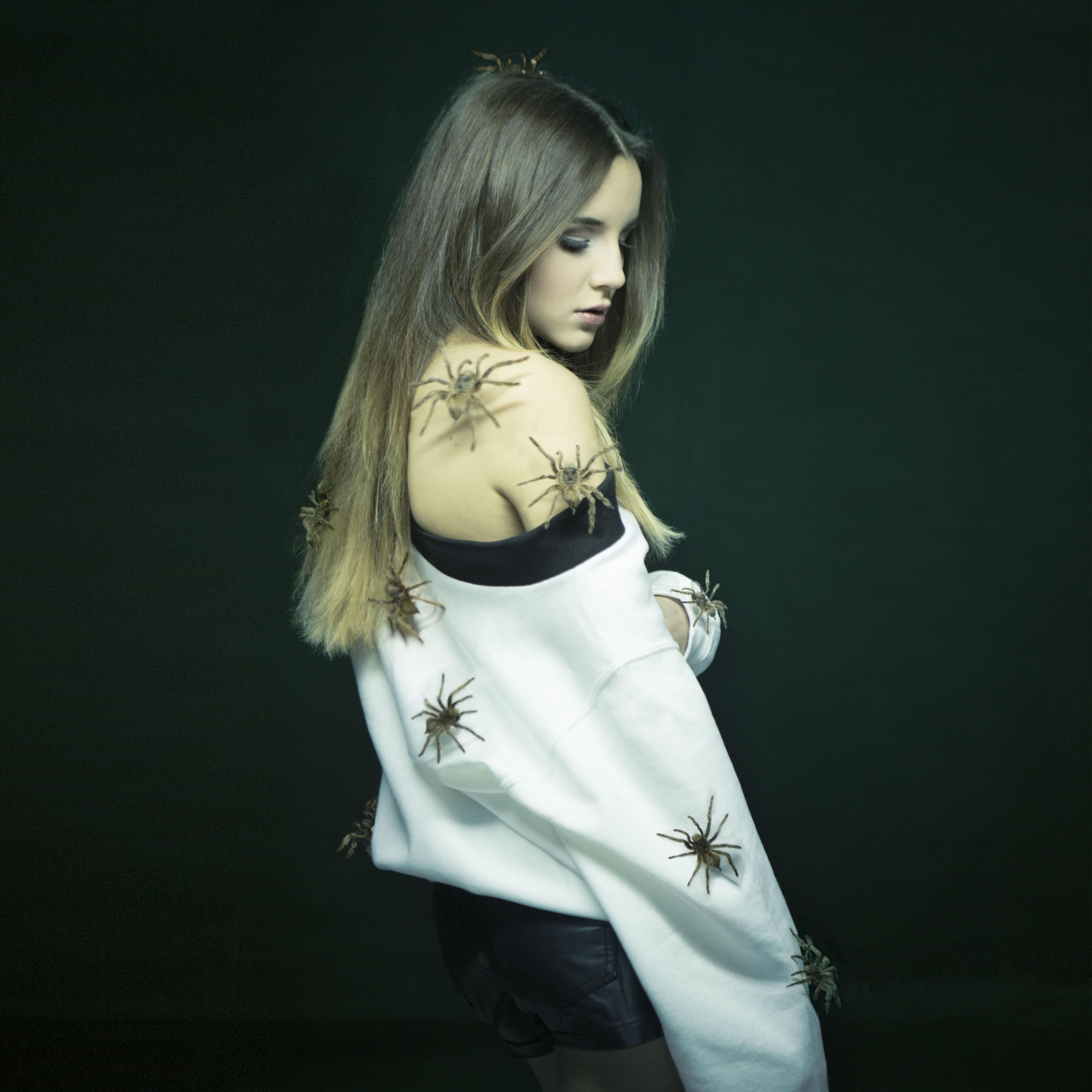 Special Session